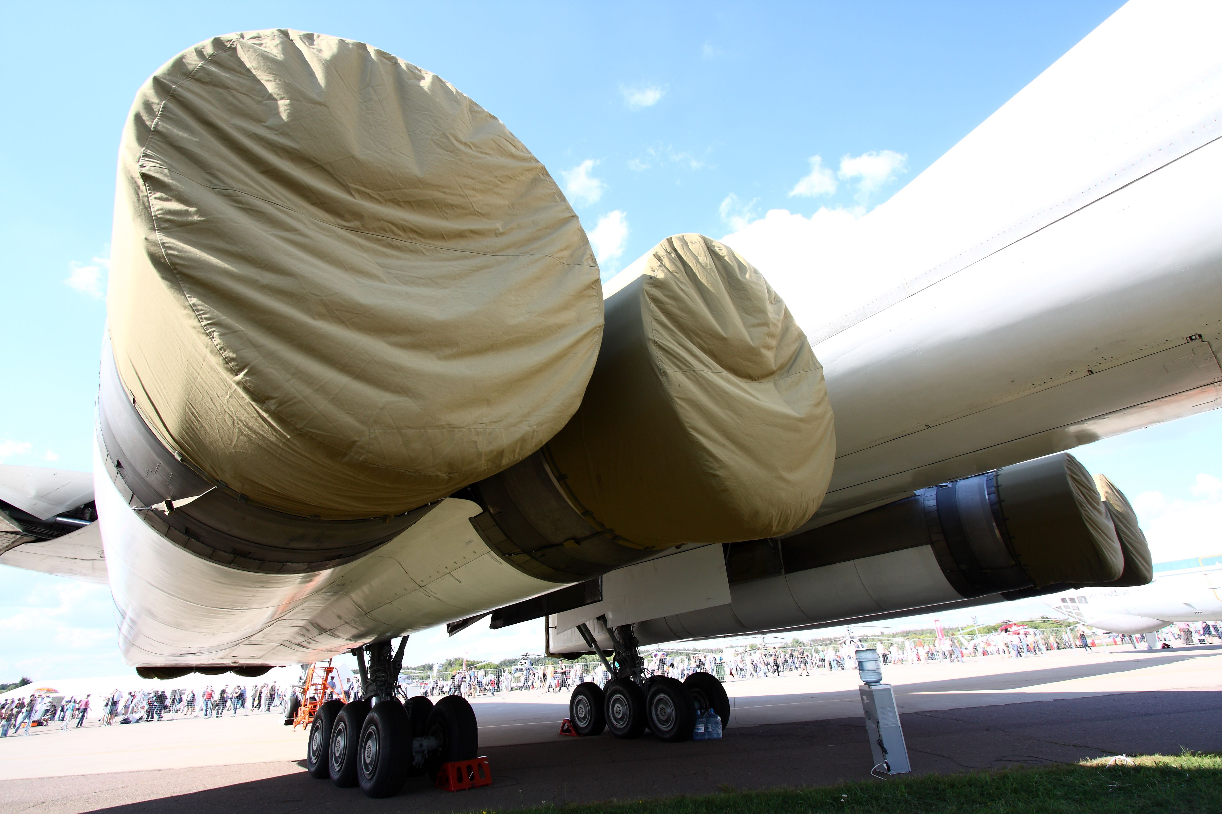 Tupolev Ту-160 Blackjack (The international aerospace salon MAKS-2011)